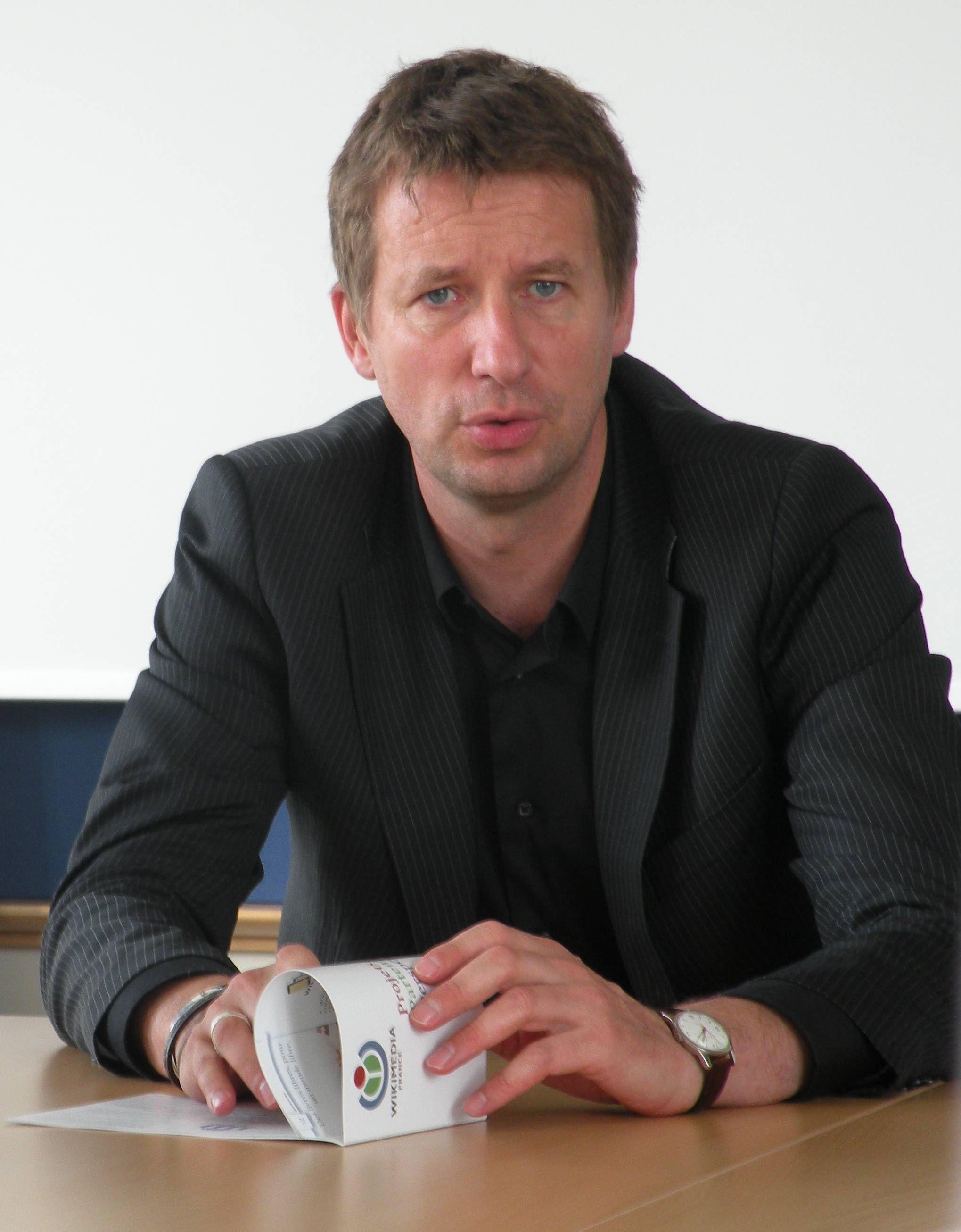 Yannick Jadot, french member of the European Parliament during a meeting with members of Wikimédia France, Brussels, 28 June 2011.